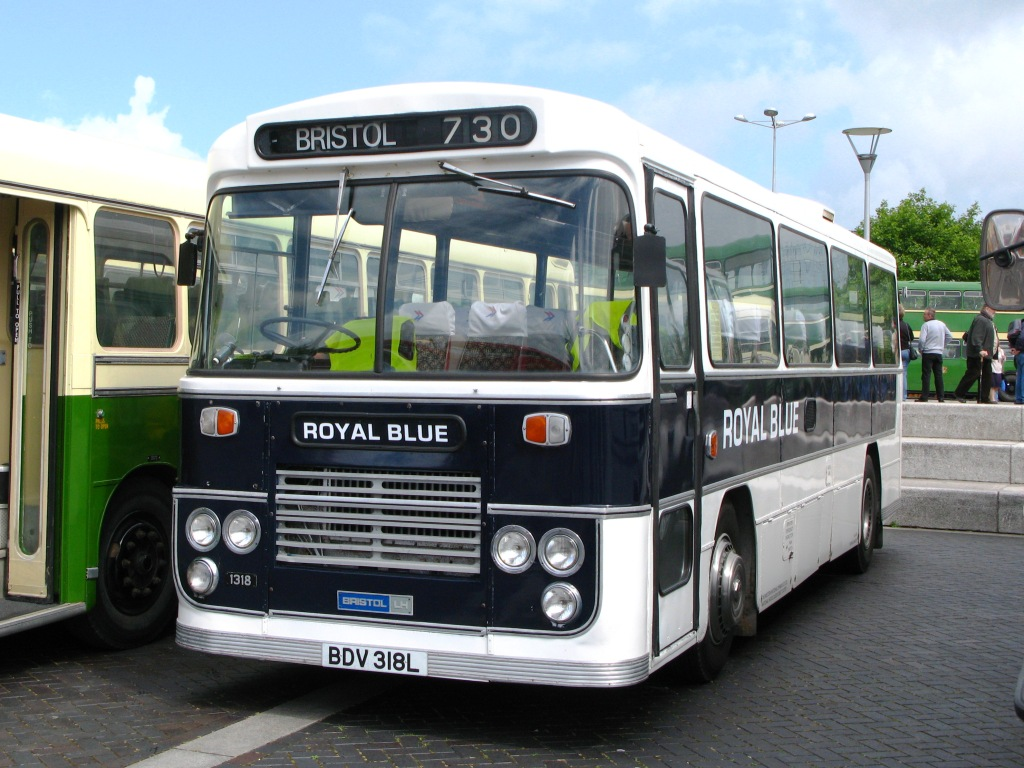 Royal Blue 1318 (BDV 318L) is a Bristol LH6L with Marshall coach body. It is preserved in the National Bus Company version of the Royal Blue livery that was used in the early 1970s when this coach was new.